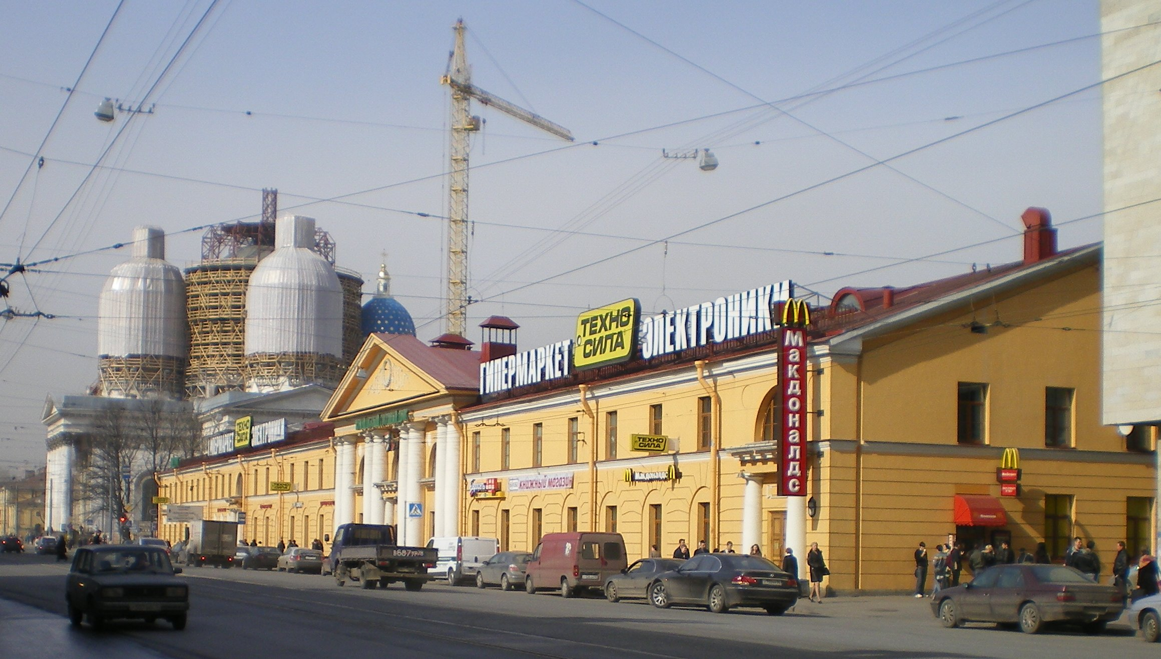 Quarters of Izmailovsky Regiment - Izmailovsky Gostiny Dvor